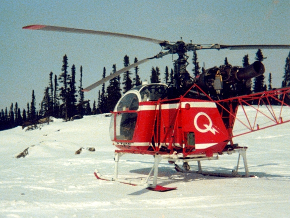 Fermont Quebec, winter 1978 Hydro-Québec helicopter.